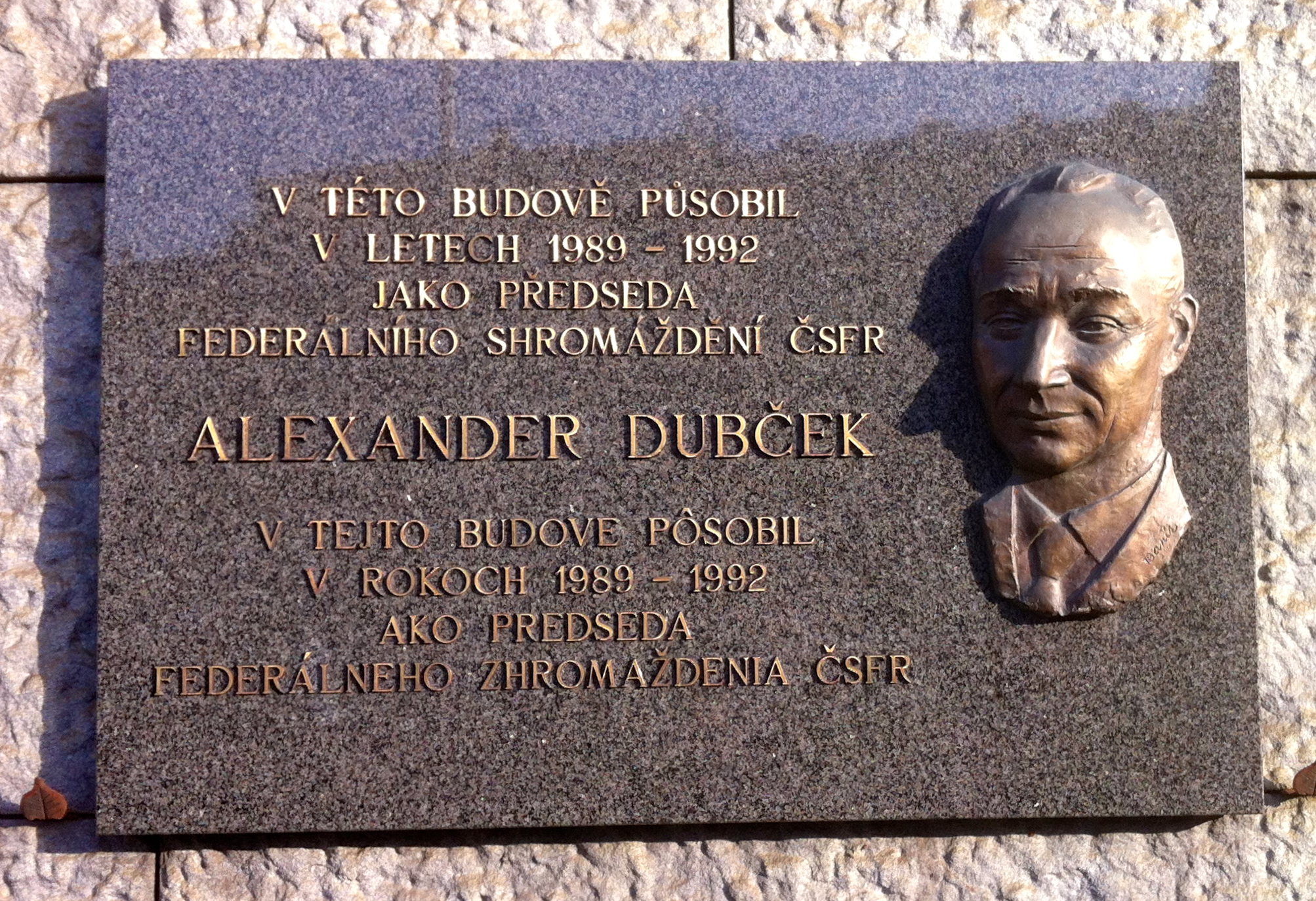 Alexander Dubček (1921-1992) was elected Chairman of the Federal Assembly (the Czechoslovak Parliament) on 28 December 1989, and re-elected in 1990 and 1992.